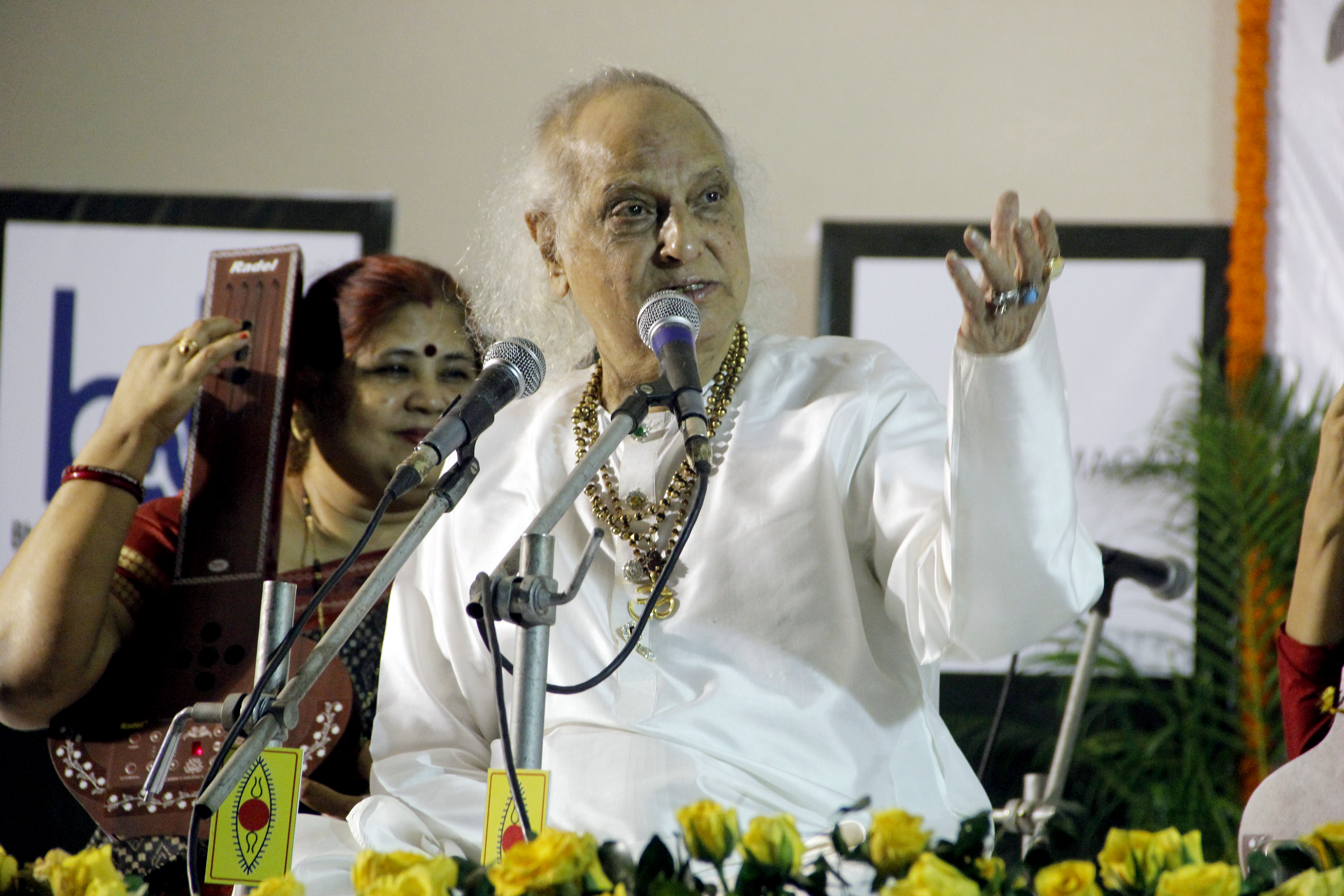 Music in the Park (2016) by Pt. Jasraj at Bhubaneswar